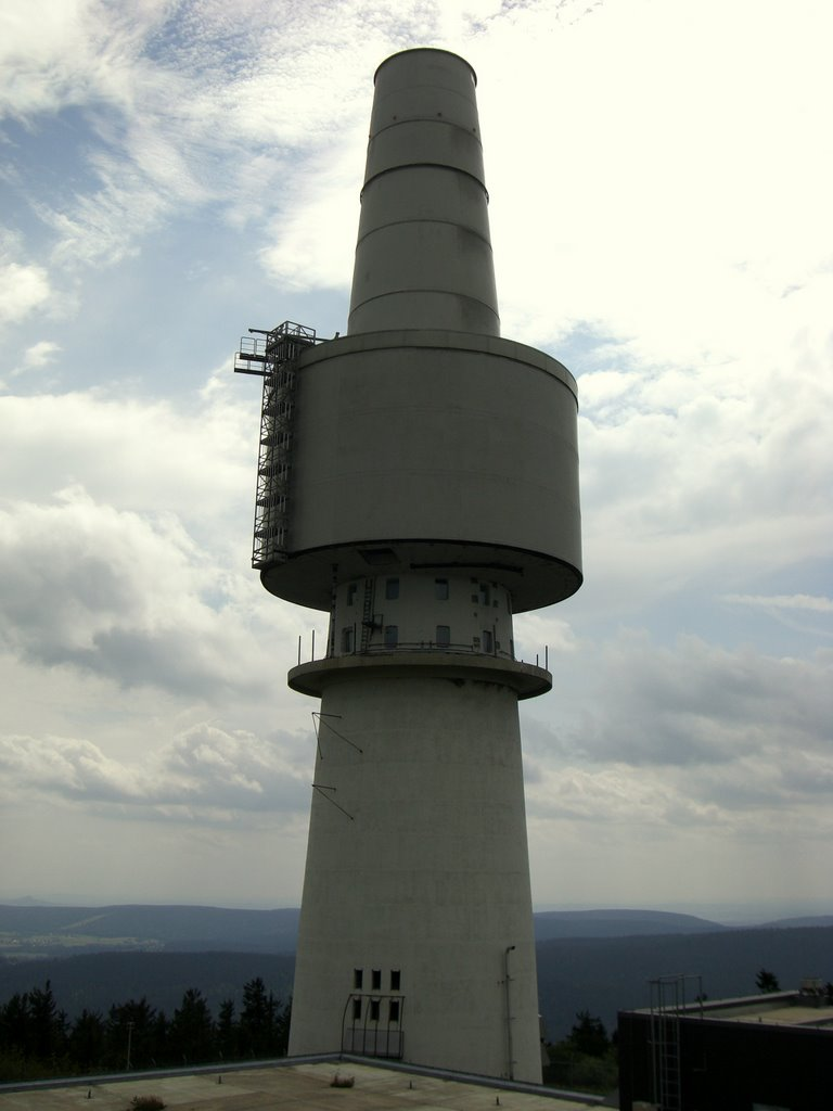 The telecommunication tower on the Schneeberg in the Fichtelgebirge mountains of Bavaria, Germany